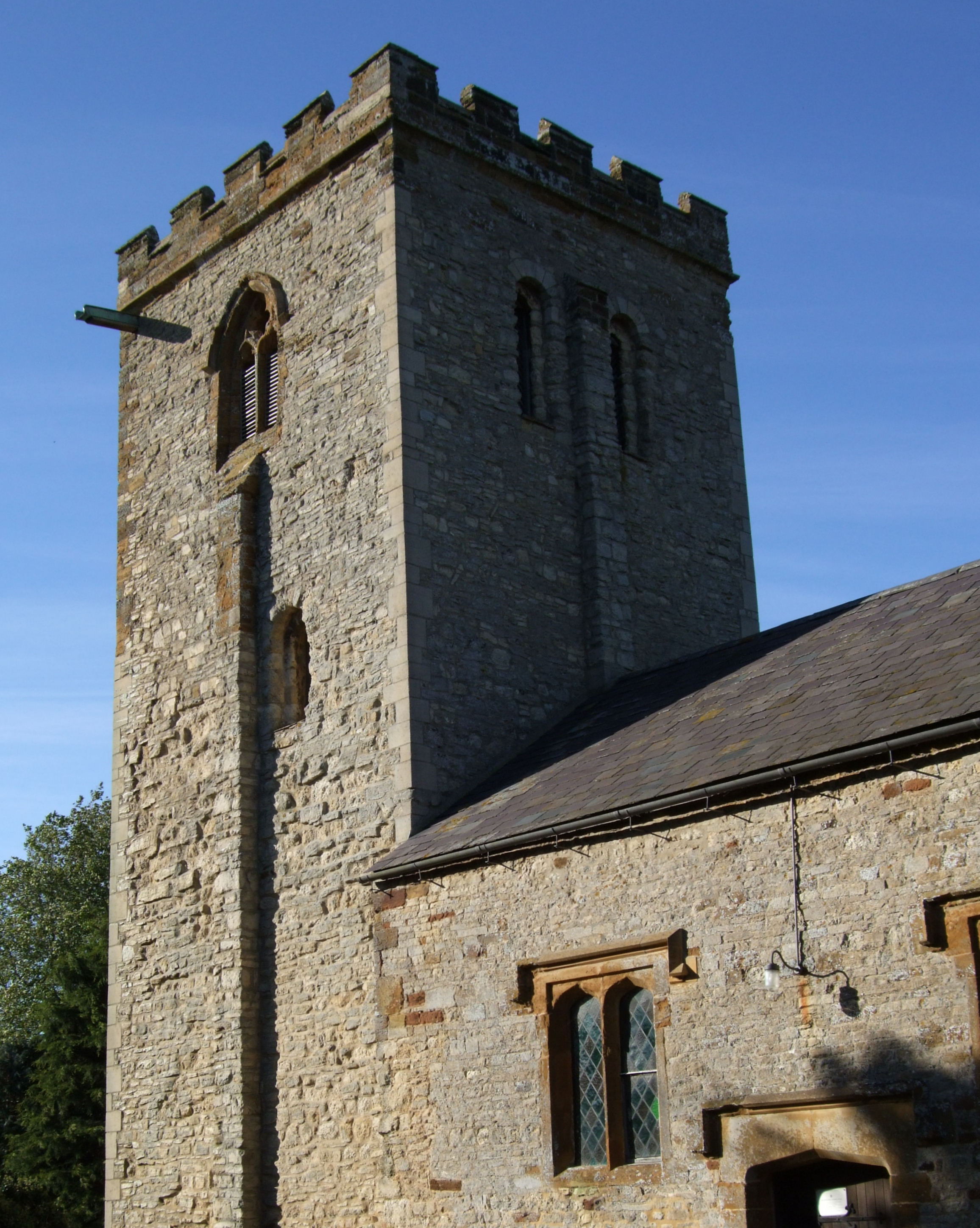 Preson Deanery Church